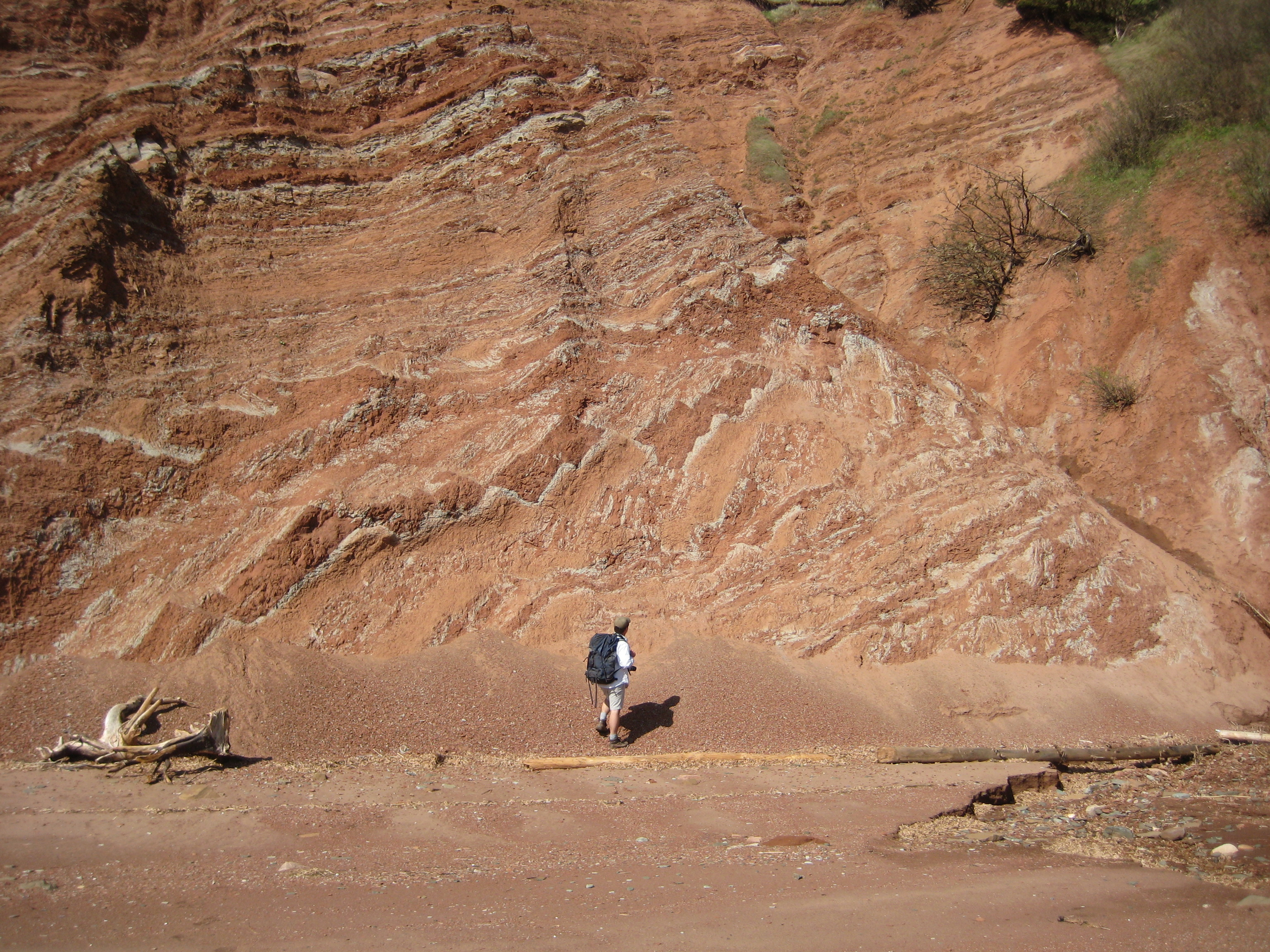 Syndepositional faulting within the Blomidon Formation (Triassic), Five Islands Provincial Park, Nova Scotia.